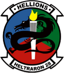 Insignia of the U.S. Navy Helicopter Training Squadron 28 (HT-28) "Hellions".